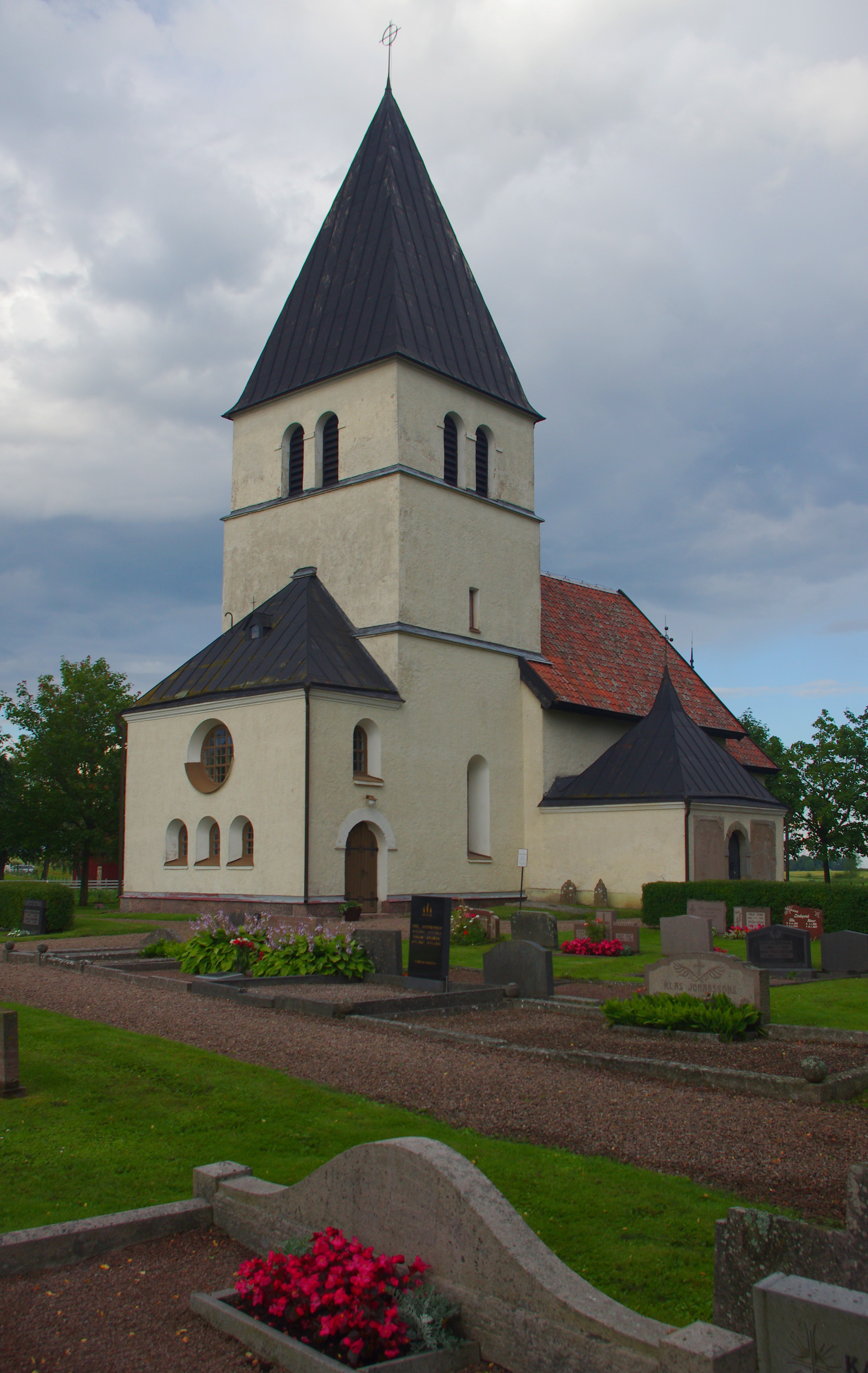 Hångsdala church in Västergötland, Sweden.